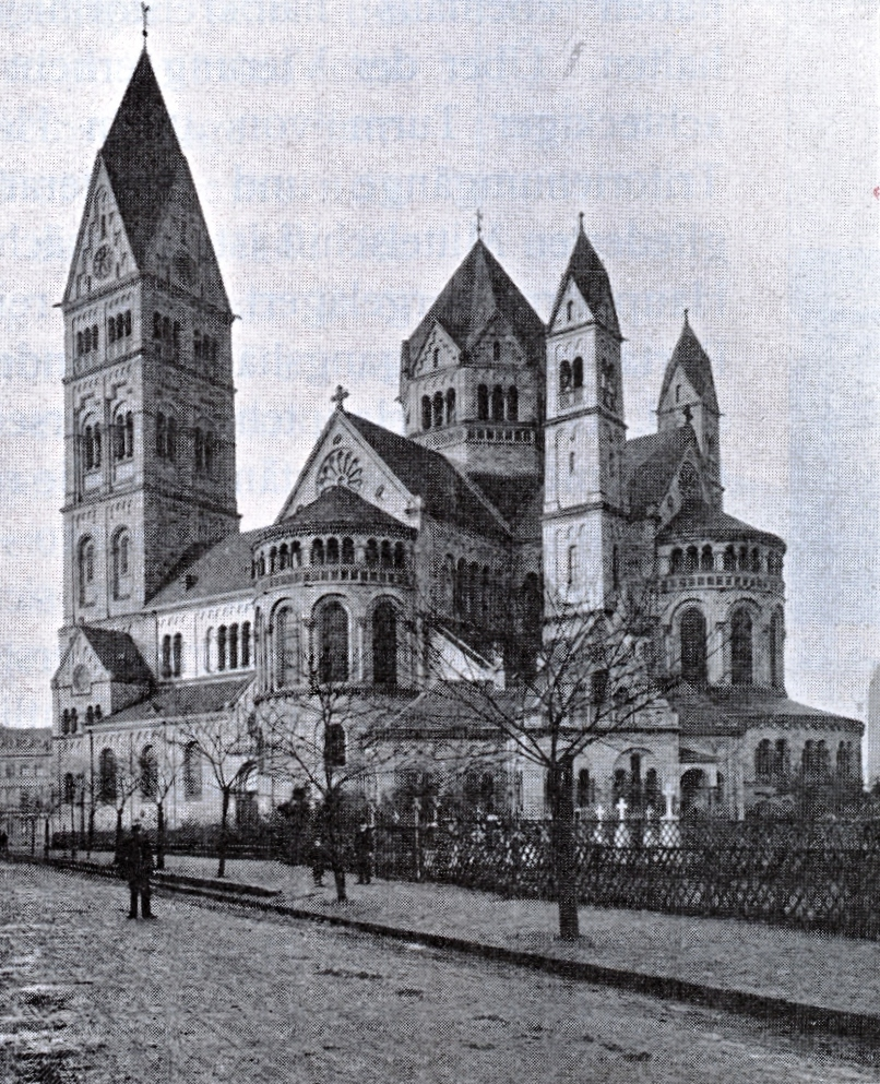 Rochuskirche in Düsseldorf, erbaut von 1894 bis 1897, Architekt Josef Kleesattel,_Außenansicht.jpg